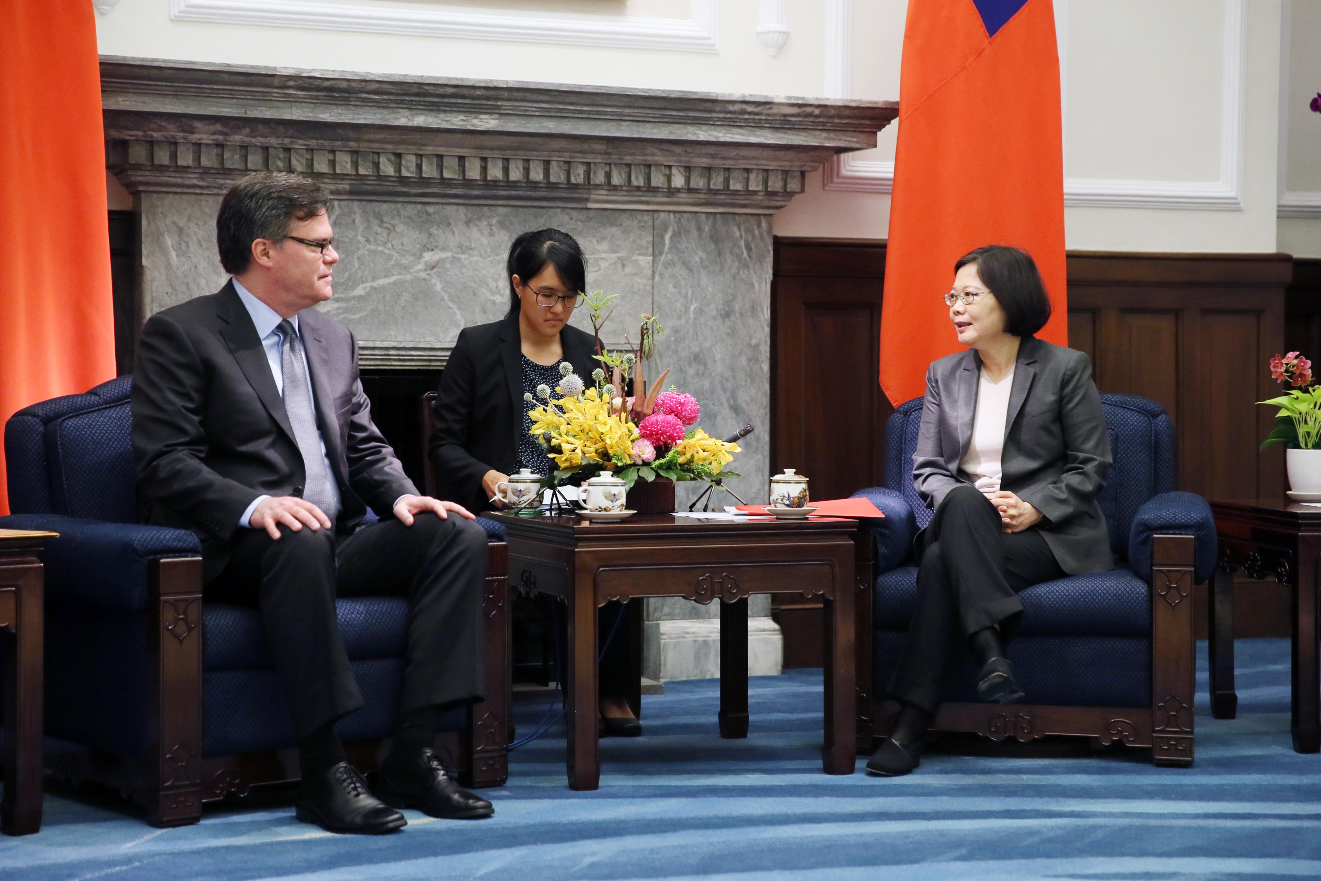 President Tsai meets with a delegation from the US-China Economic and Security Review Commission (USCC). (2016/06/21) 授權方式及範圍：中華民國總統府│政府網站資料開放宣告 Authorization Method & Scope: Office of the President, Republic of China (Taiwan) | Government Website Open Information Announcement